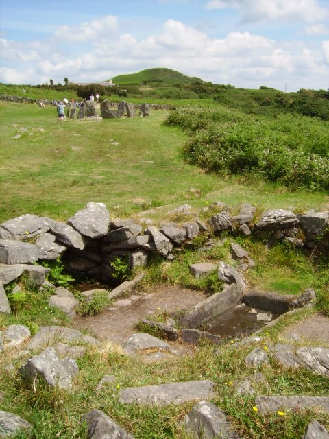 Fulacht Fia, Drombeg. Fulacht Fia is a term that is liberally applied to many Ordnance Survey maps in Ireland. It is believed that they were cooking pits. Water was boiled using hot stones in order to cook meat. Within one of two hut remains near Drombeg stone circle